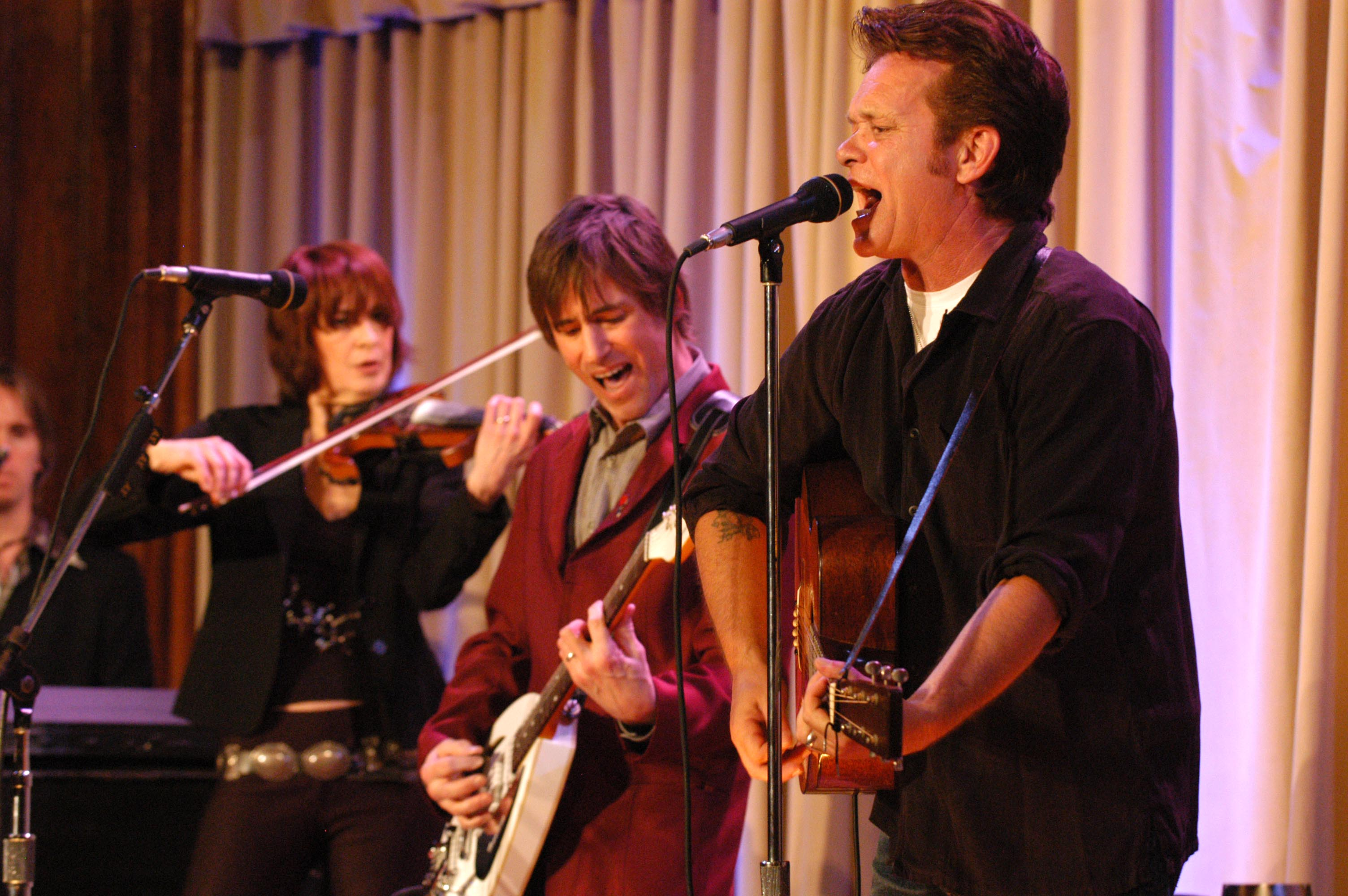 John Mellencamp sings at Walter Reed Army Medical Center at a free performance for wounded warriors, family and staff April 27. About 200 wounded soldiers, staff and family members attended the event, providing a small but energetic crowd.